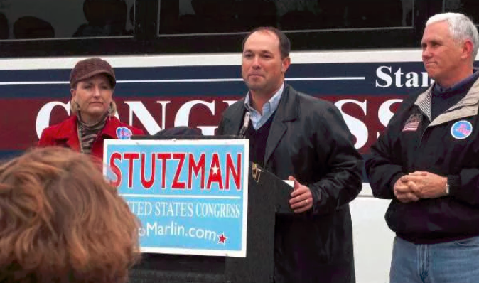 2010 Pence Road Team Bus Tour stop for Marlin Stutzman 10/28/2010 Congressman Mike Pence stops in Fort Wayne for Marlin during his 2010 Road Team Bus Tour across the state. To learn more, log on to